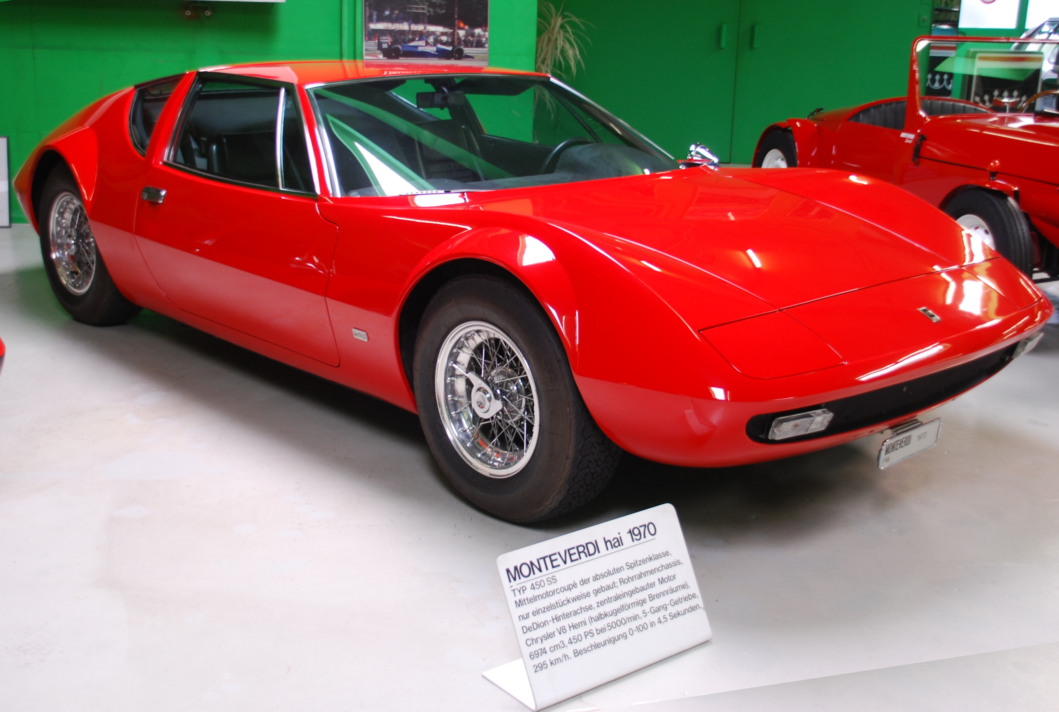 Monteverdi Hai 450 SS (Replica) in the Monteverdi Automuseum, Basel, Switzerland.